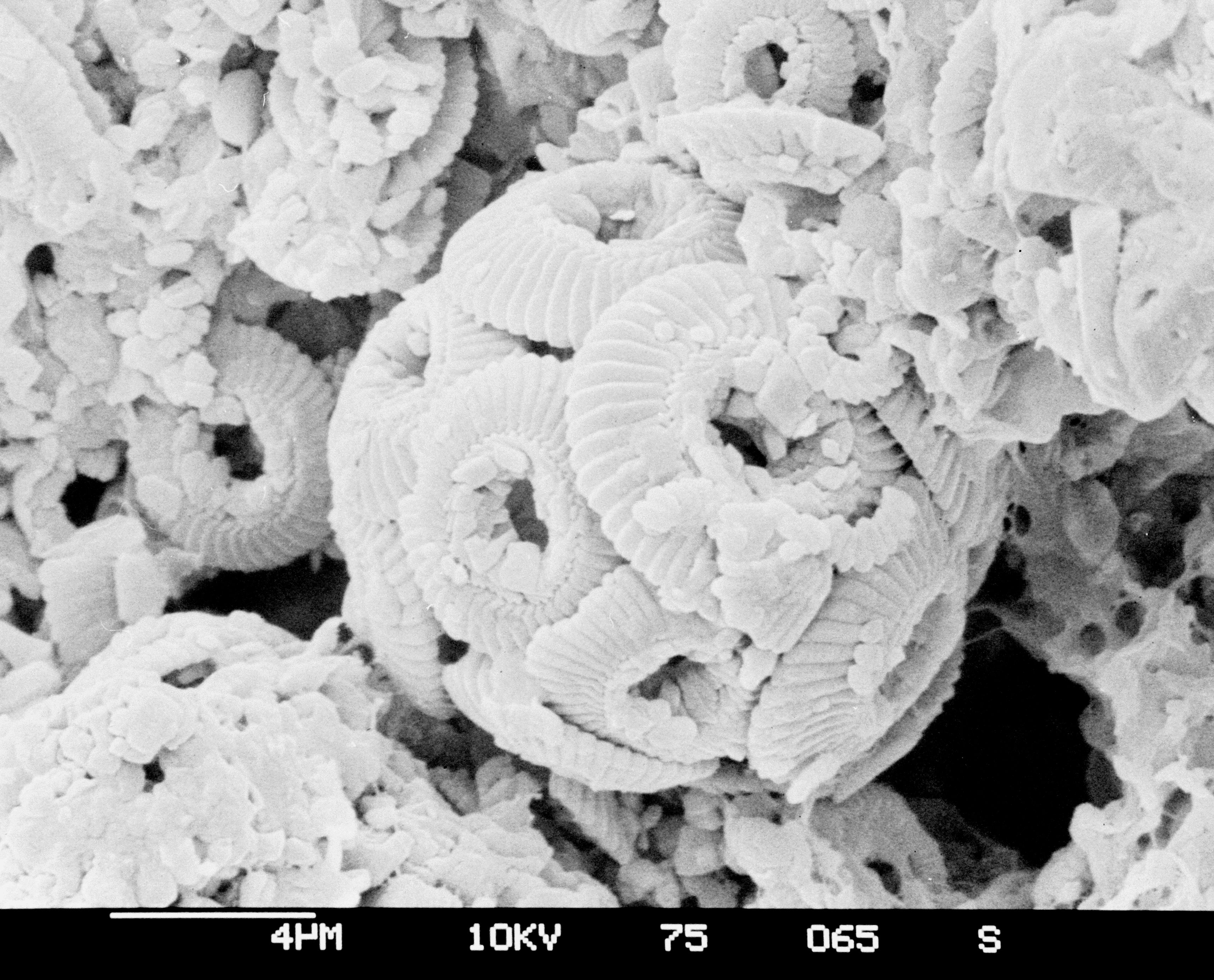 Microfossils from a sediment core of the Deep Sea Drilling Project (DSDP), Coccosphaera (Coccolithus pelagicus)